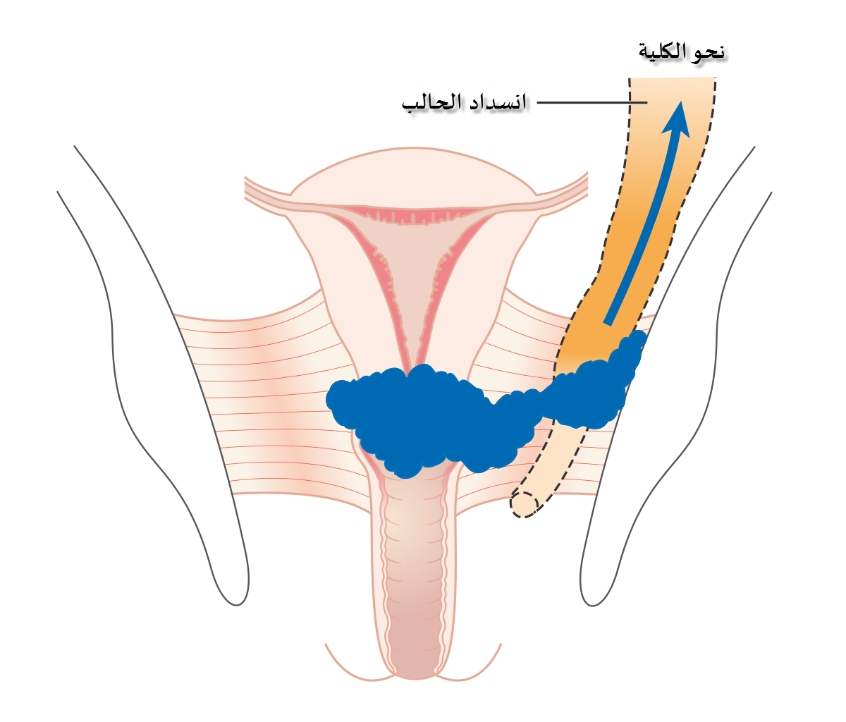 Diagram showing stage 3B cervical cancer.